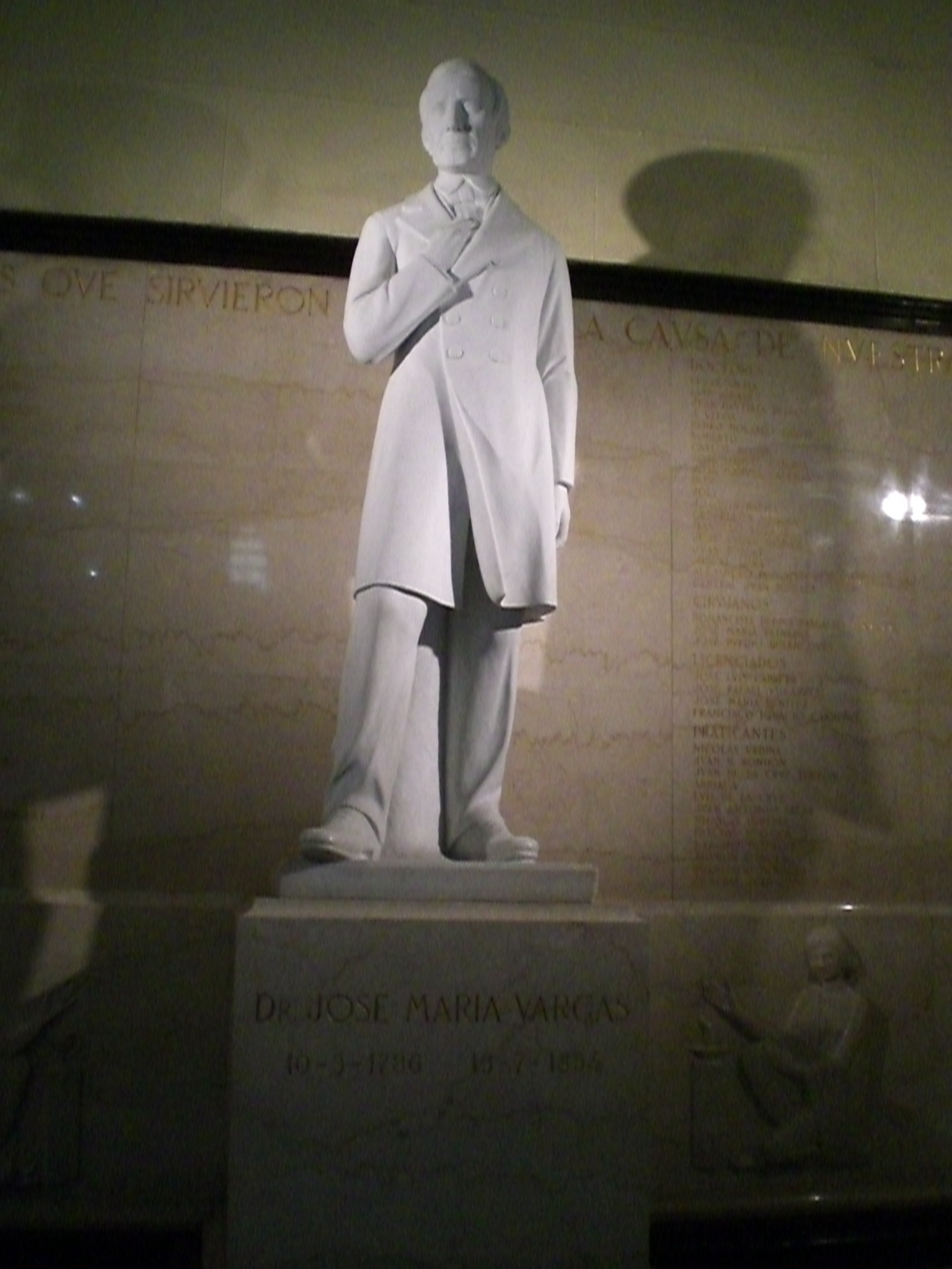 Statue of José María Vargas statue at the National Pantheon.